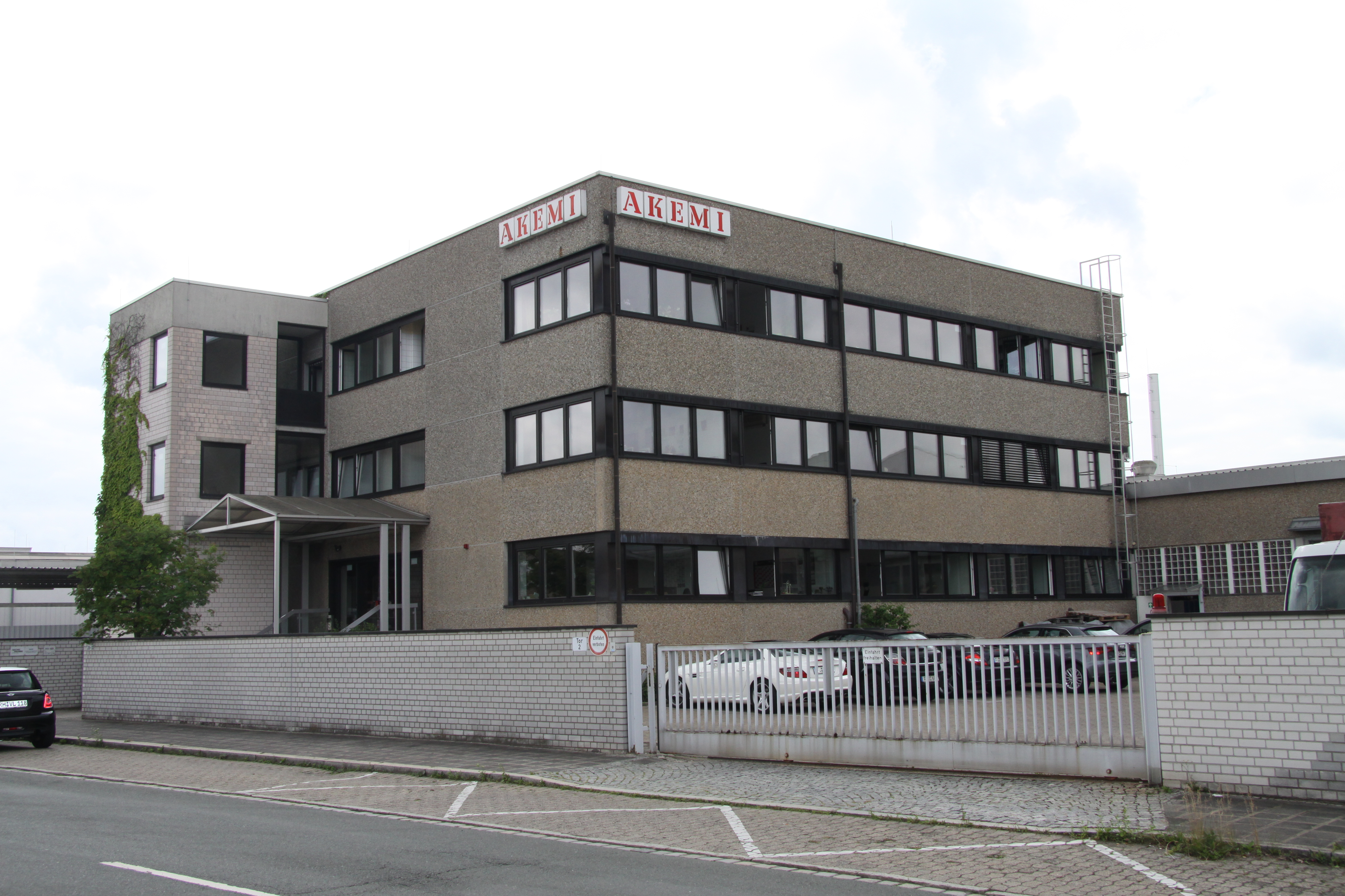 Akemi administration building in Nuremberg